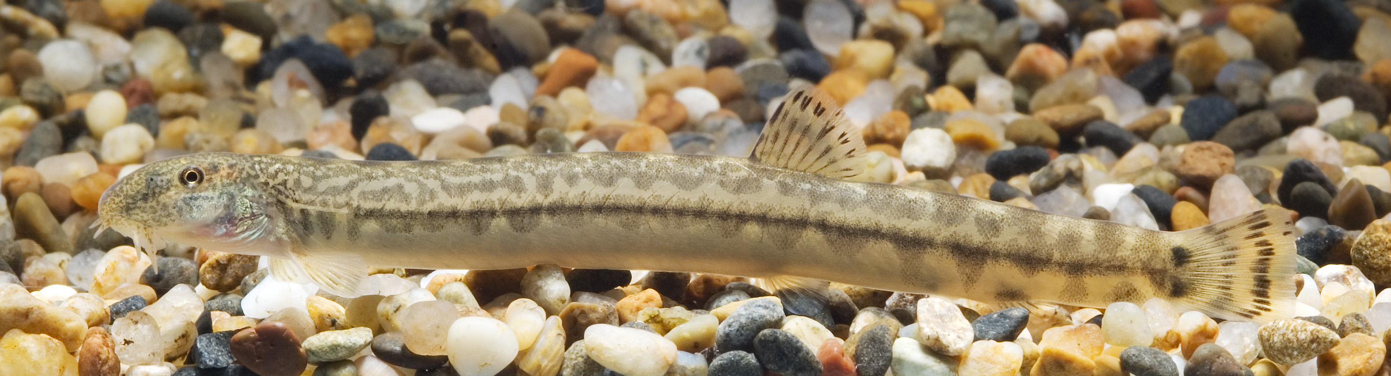 Ajimedojo, Niwaella delicata